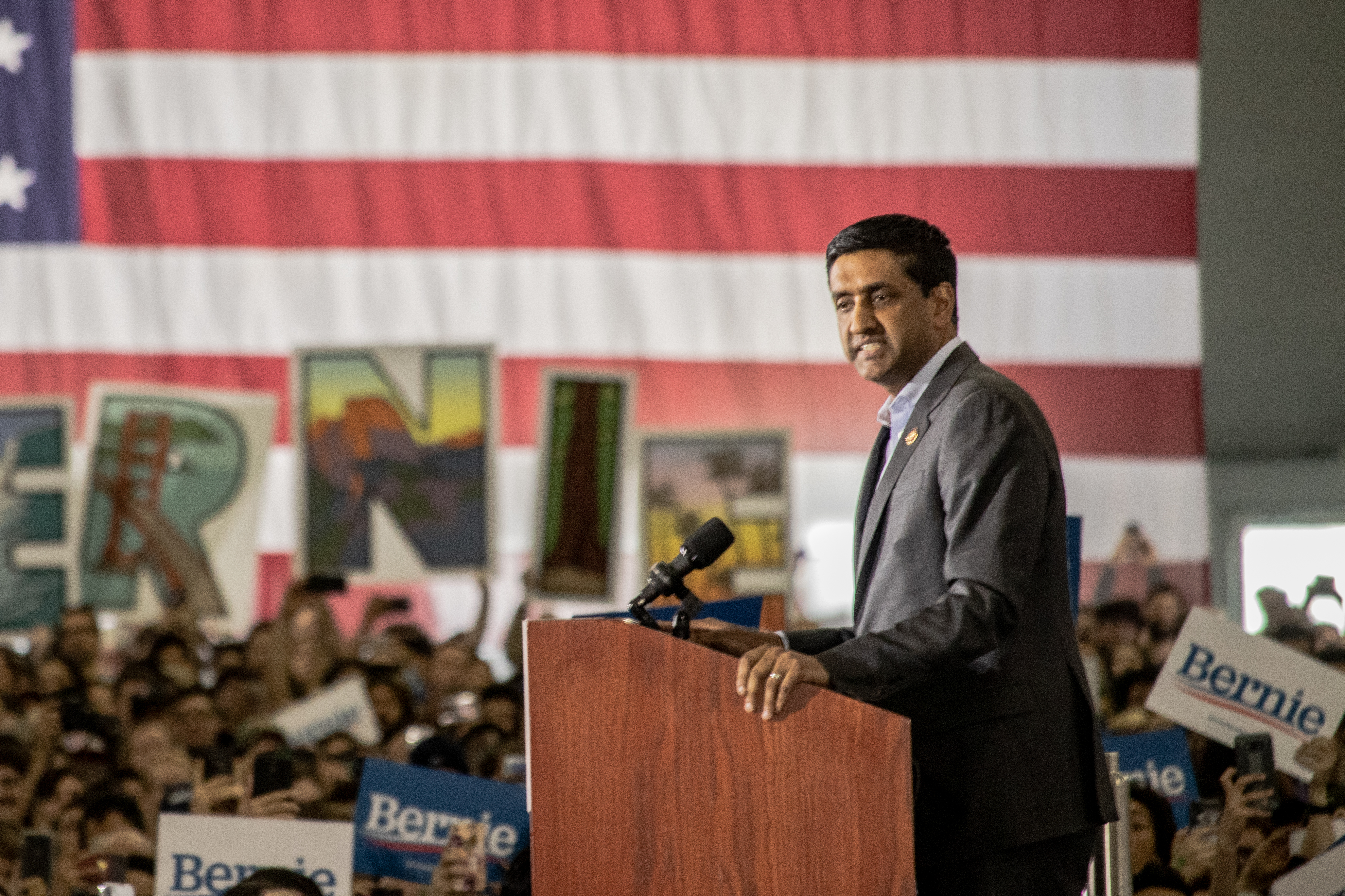 Ro Khanna, U.S. representative CA-17, speaking at a rally for U.S. presidential candidate Bernie Sanders on 1 March 2020.